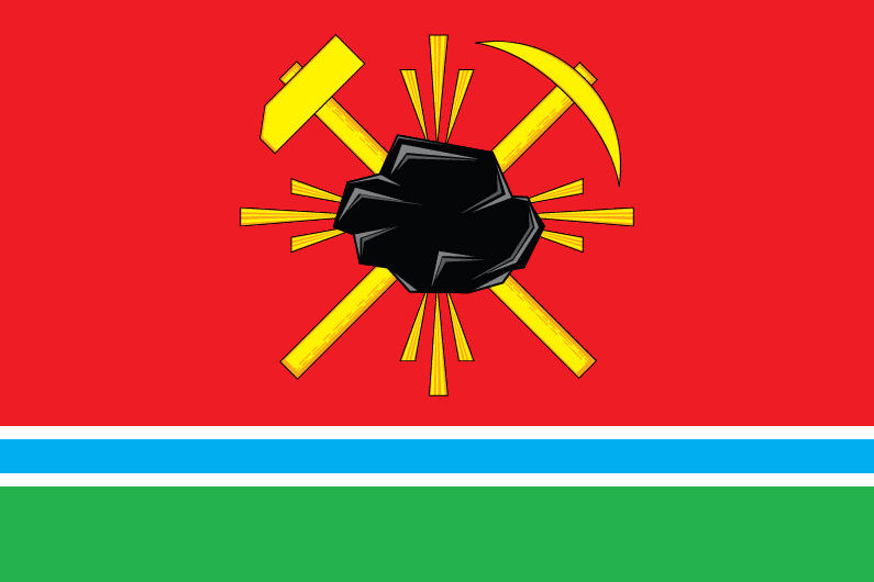 Flag of Leninsk-Kuznetsky, Kemerovo Region, Russia